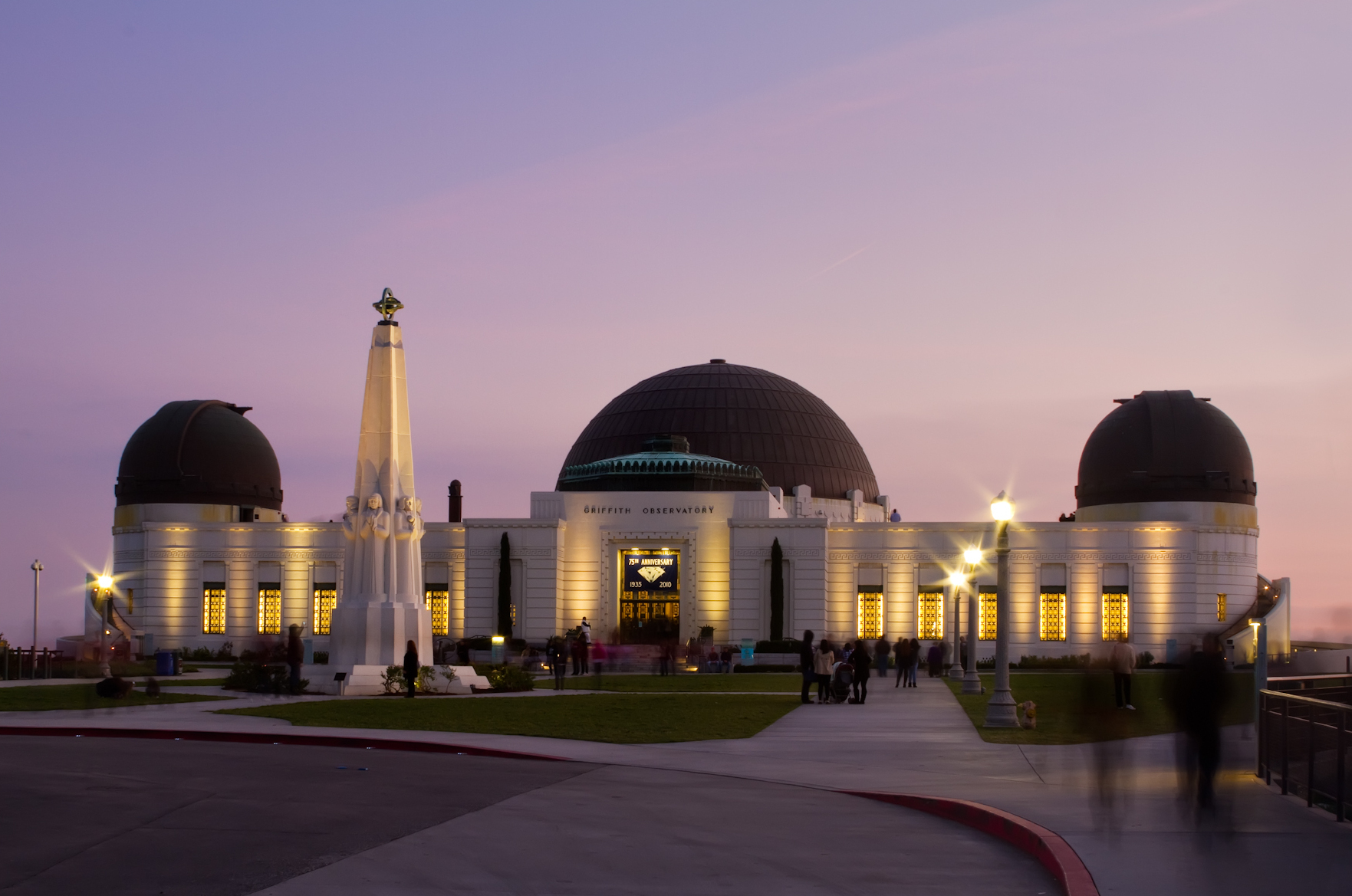 The Griffith Observatory overlooks Los Angeles, and it is a great place for photos. This was in early January, just after sunset, with beautiful color in the sky. ISO 100, 28mm, f18, 6sec. I set up the tripod and kept shooting hoping that there would be a gap in the crowds leaving before the light completely disappeared. This is as good as it got.